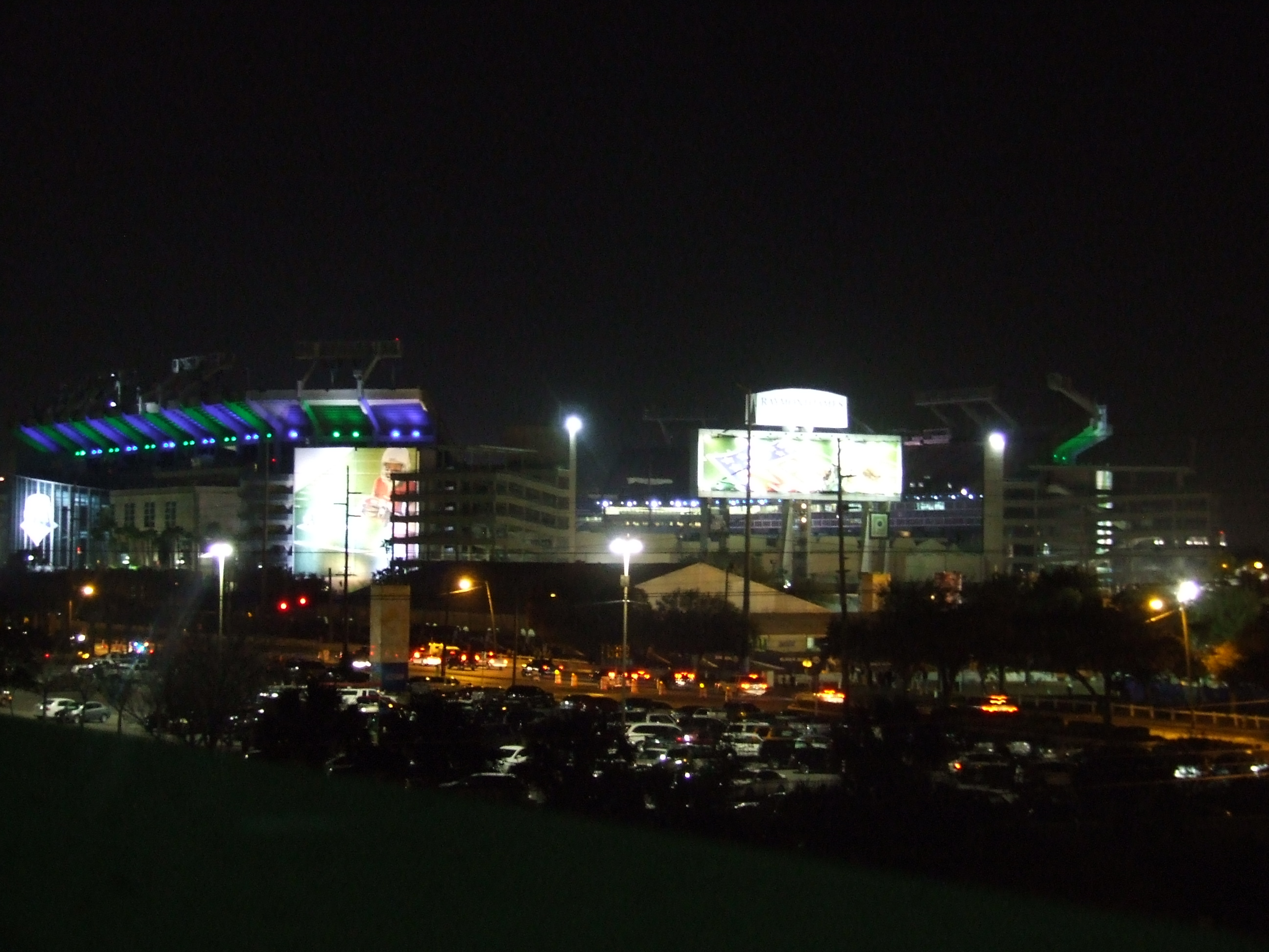 Raymond James Stadium with Super Bowl XLIII decorations and colored lights viewed from nearby parking lot roof.